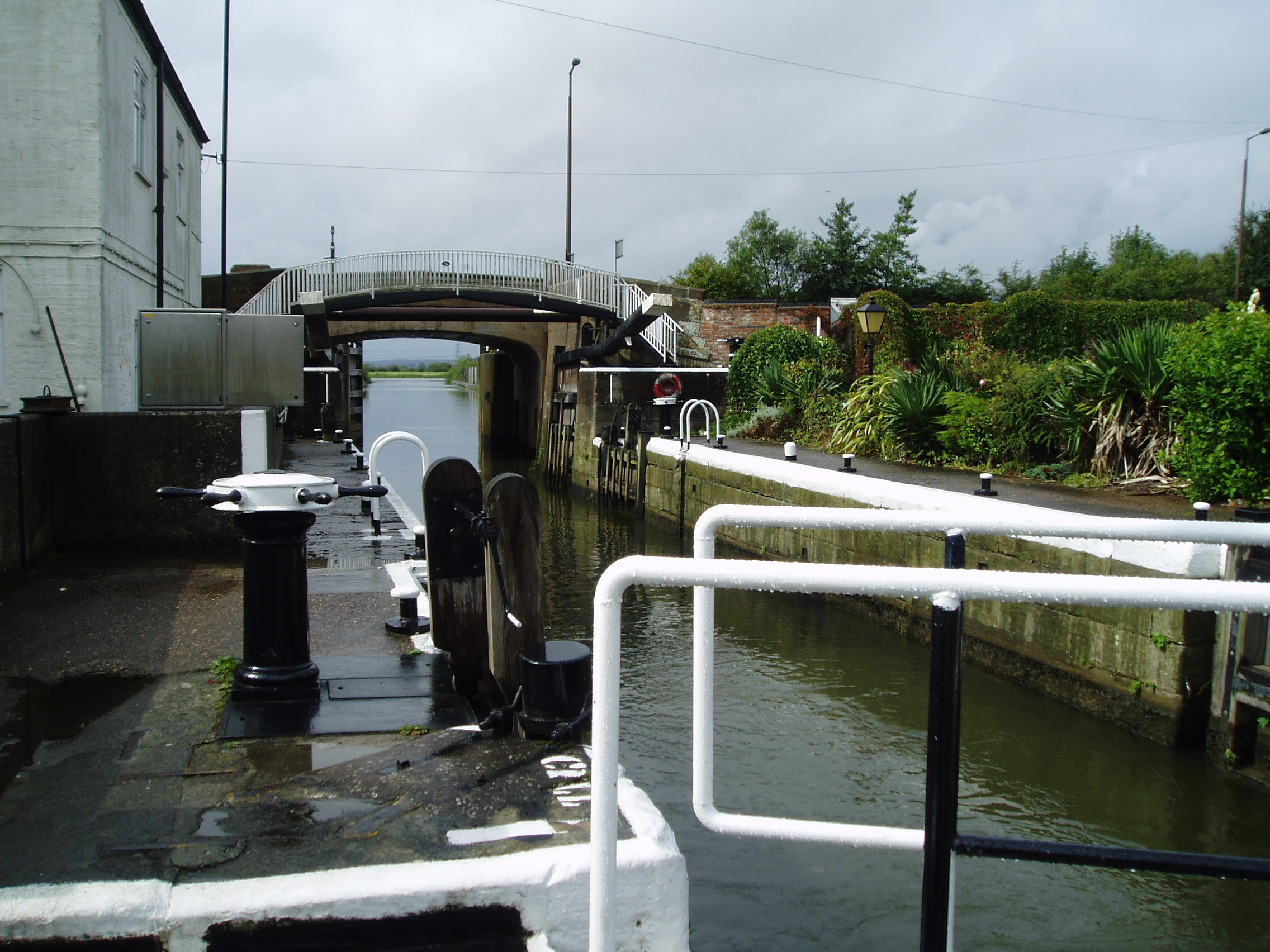 Torksey Lock on the Fossdyke Navigation, looking towards the River Trent